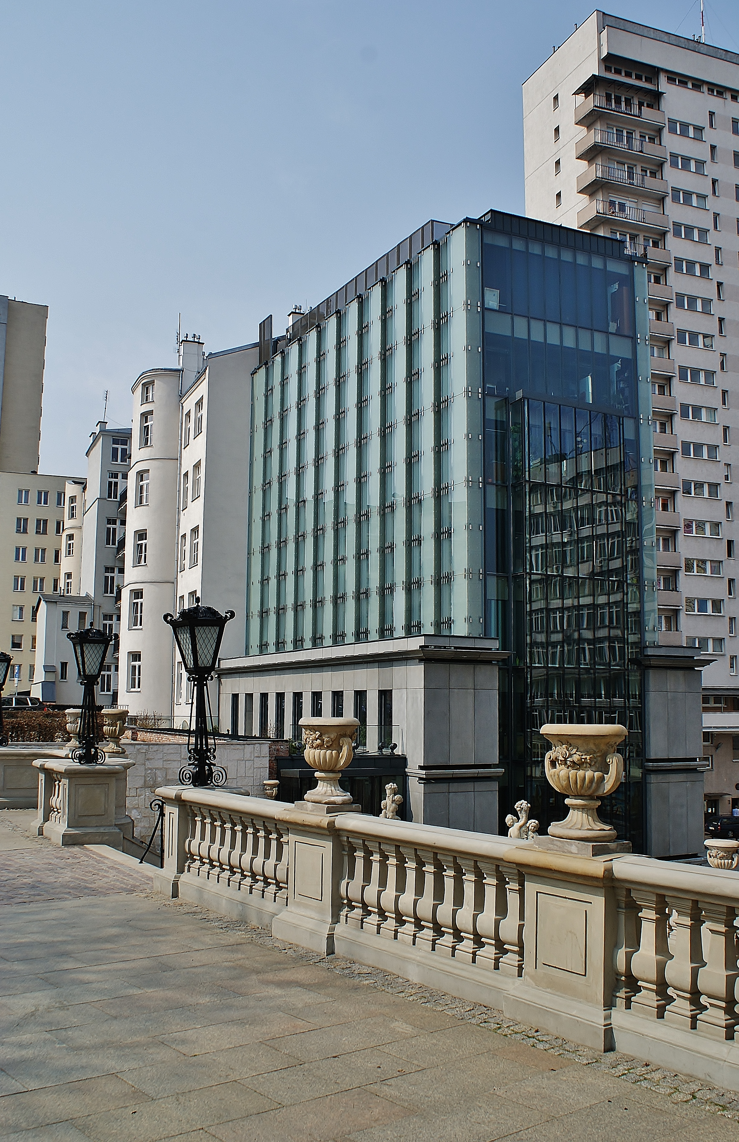 Fyderyk Chopin National Institute, Warsaw, Poland